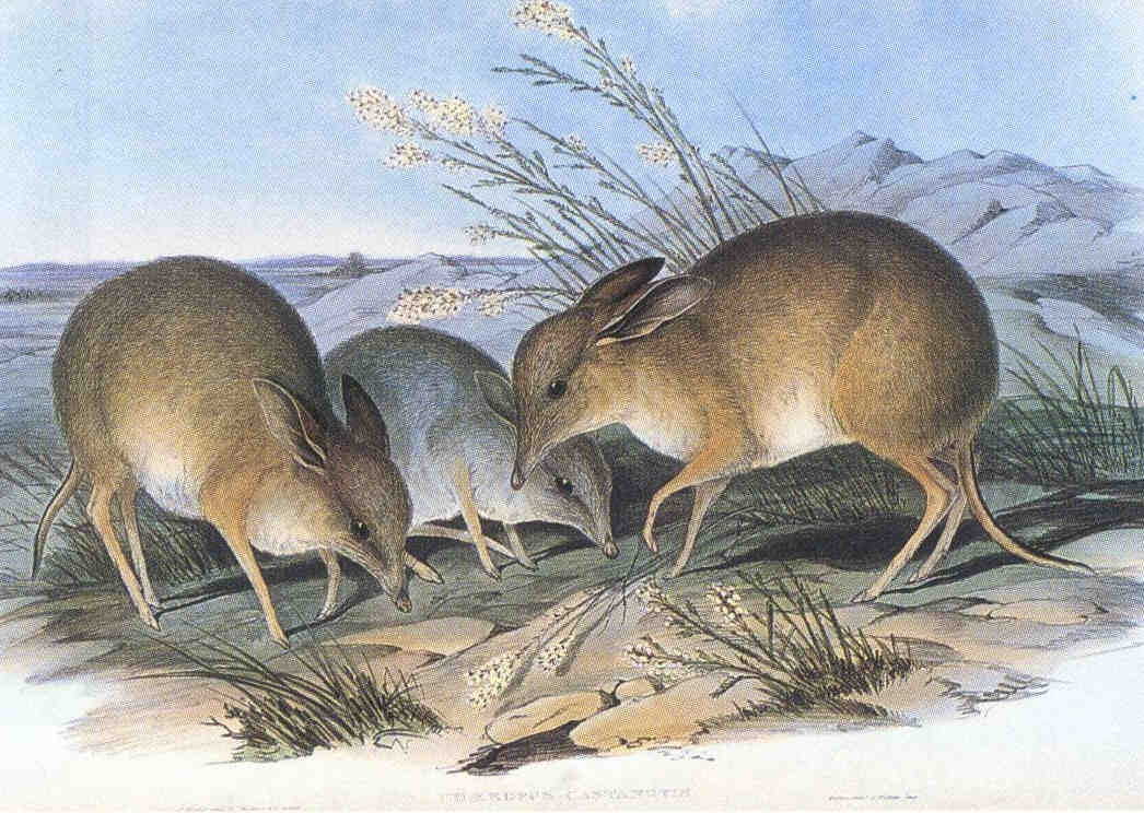 Pig-Footed Bandicoot. Illustration in John Gould's